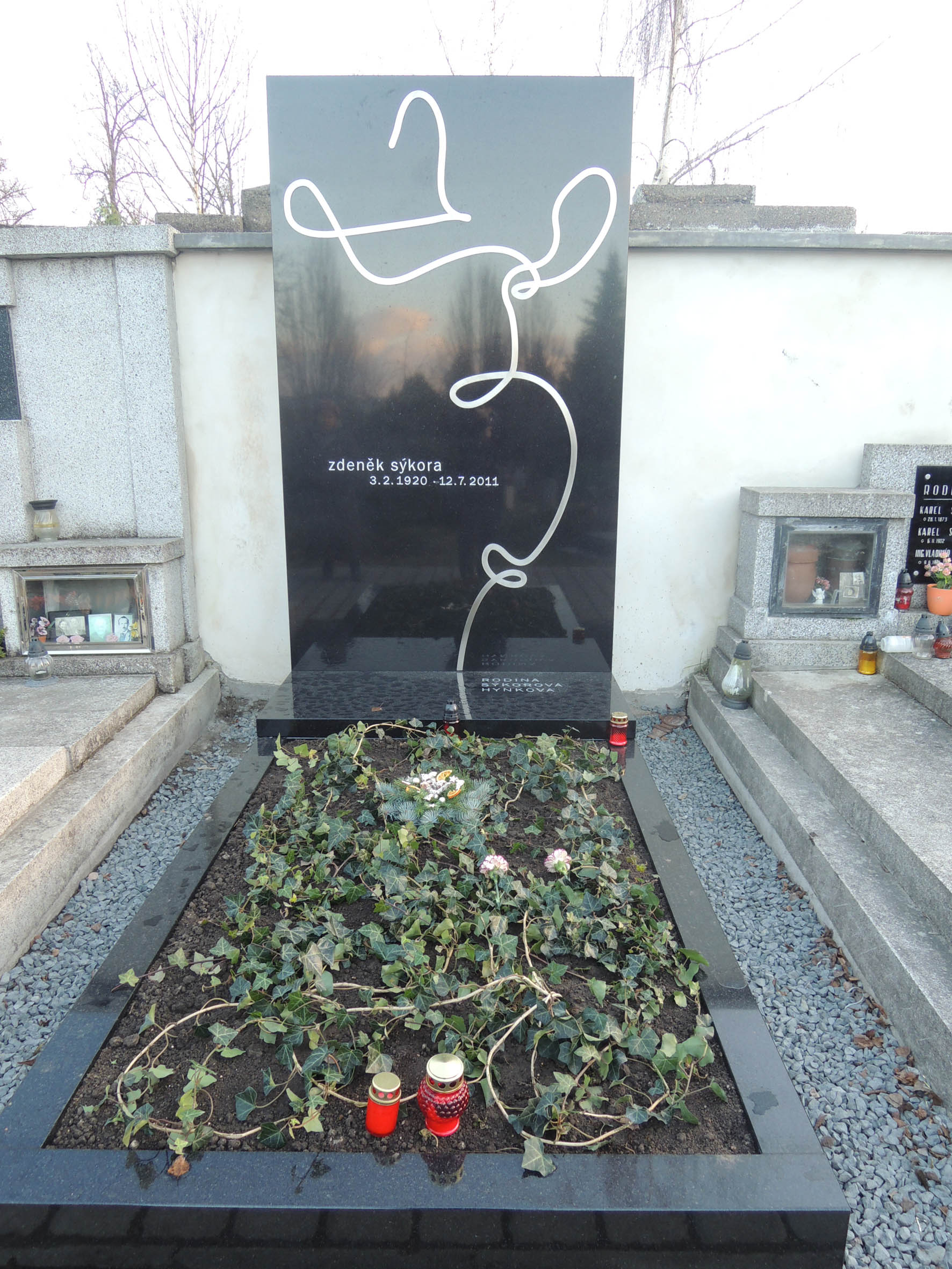 Grave of painter Zdeněk Sýkora in the cementery in Louny